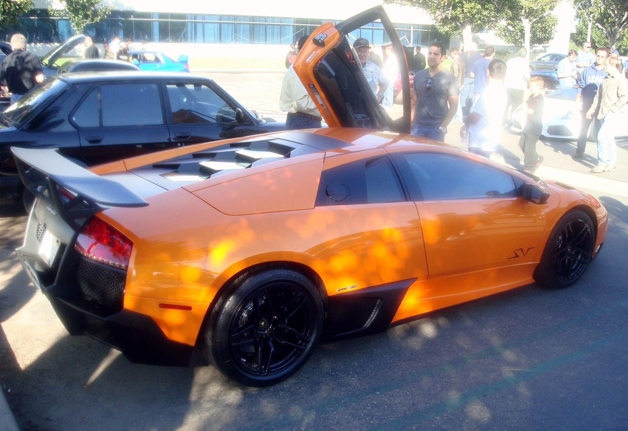 A Lamborghini Murcielago SuperVeloce in Irvine CA